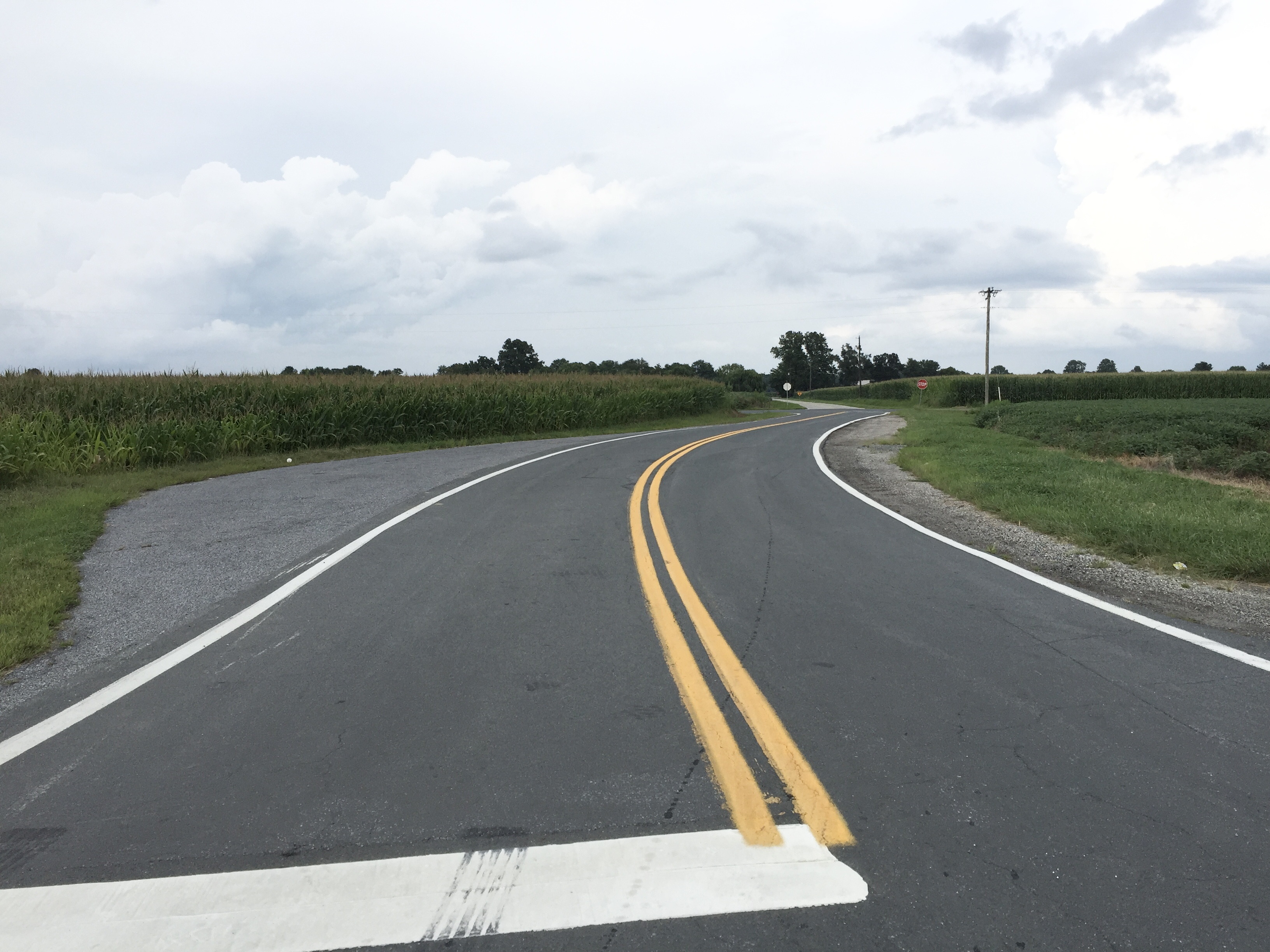 View east along Maryland State Route 449 (Shallcross Wharf Road) at Maryland State Route 213 (Augustine Herman Highway) in Locust Grove, Kent County, Maryland